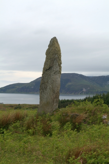 Camas an Staca (1) Camas an Staca (The bay of the stones) is the tallest of many standing stones on Jura, being approximately 12 feet in height. It is on open ground in an area that was at one time extensively cultivated, as is seen from the evidence of "lazy beds" in the area. It is thought that the stone may have served as a primitive calendar.